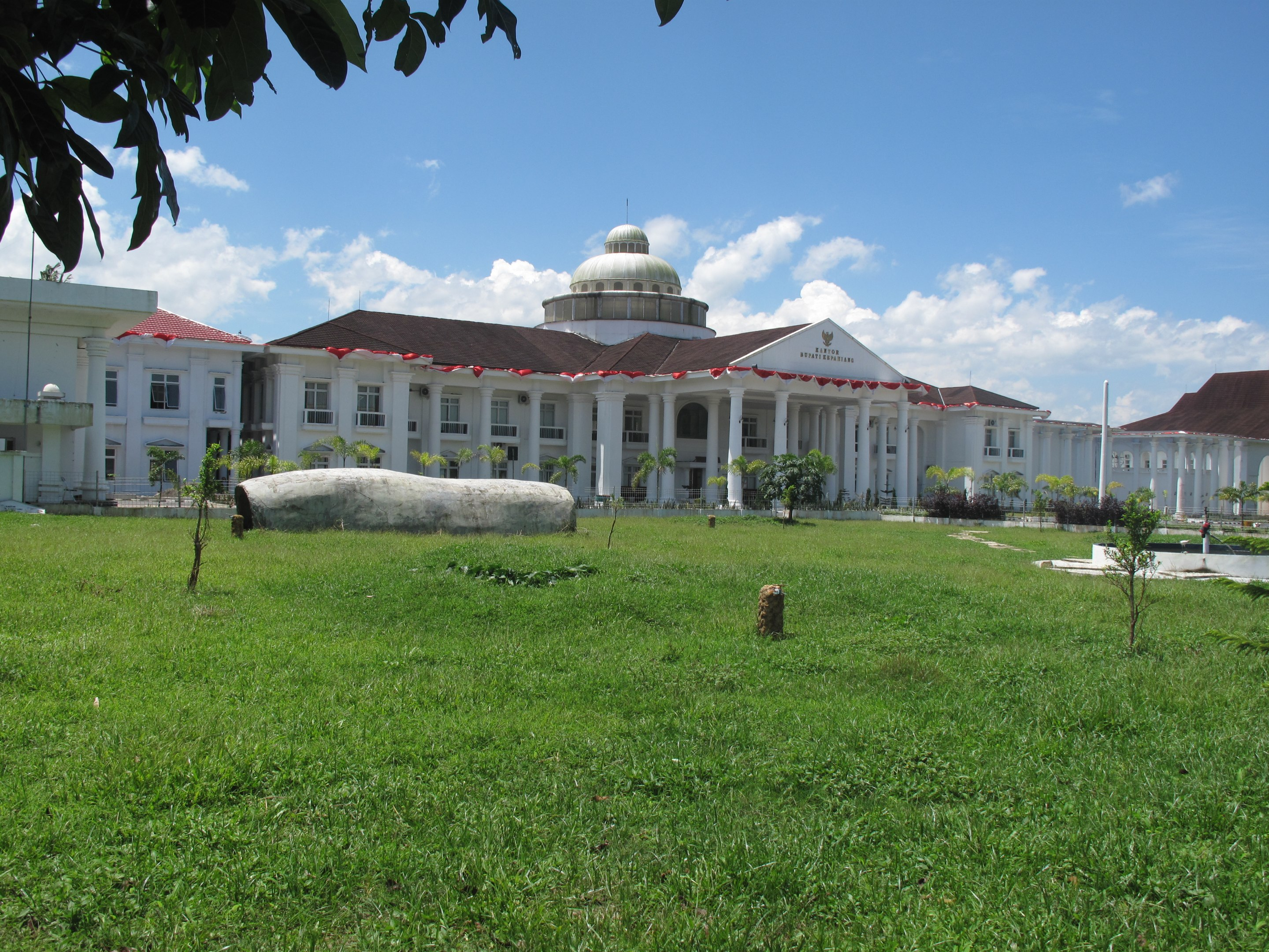 Kepahiang Regency Government Office